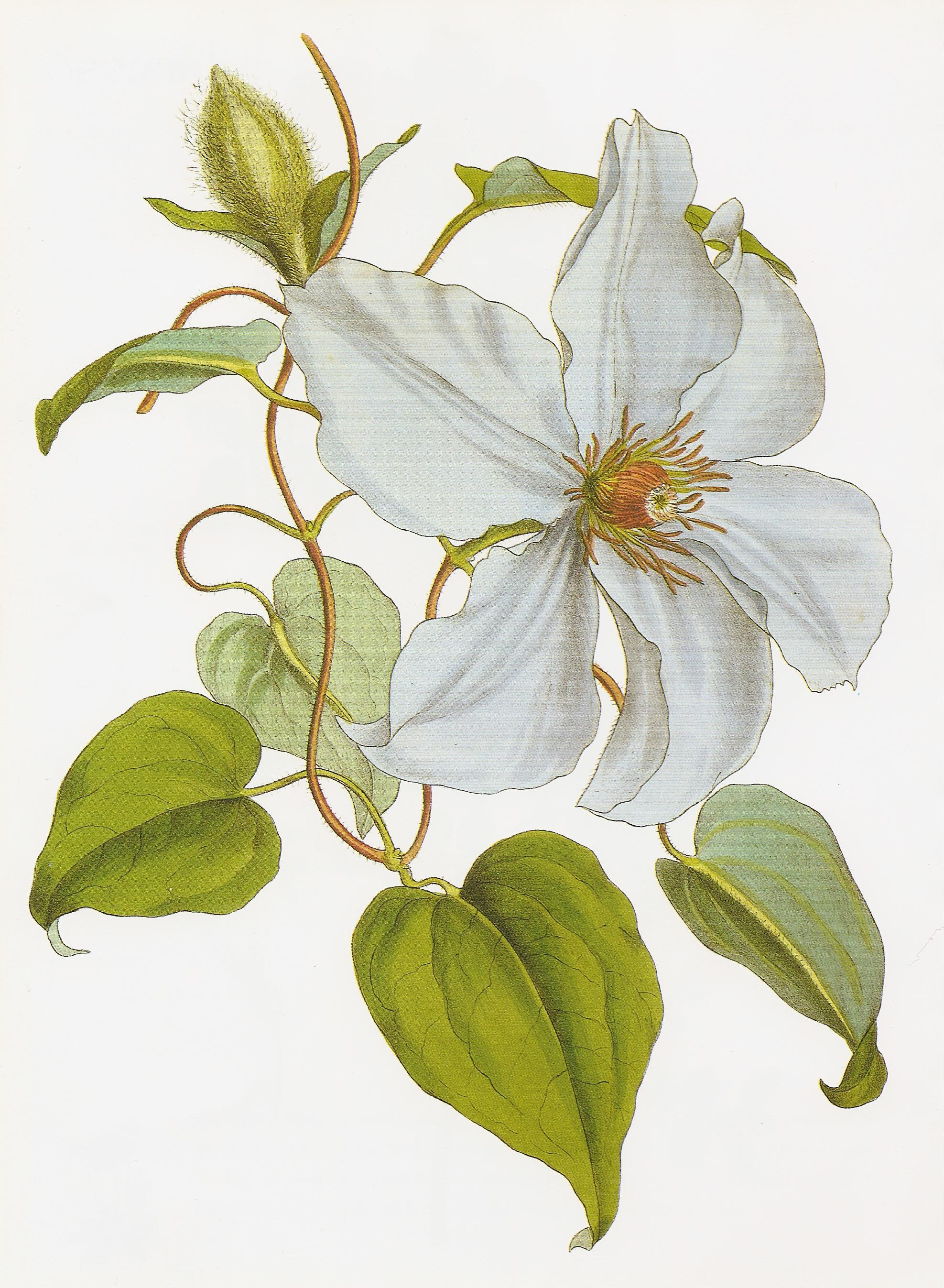 Clematis lanuginosa, a hand-retouched chromolithograph by Louis-Aristide-Léon Constans (fl. 1830s-1860s), plate 94 from the third volume of Paxton's Flower Garden (1852-1853) by John Lindley and Joseph Paxton. This species had first flowered in cultivation that year, in the nursery of Standish and Noble.